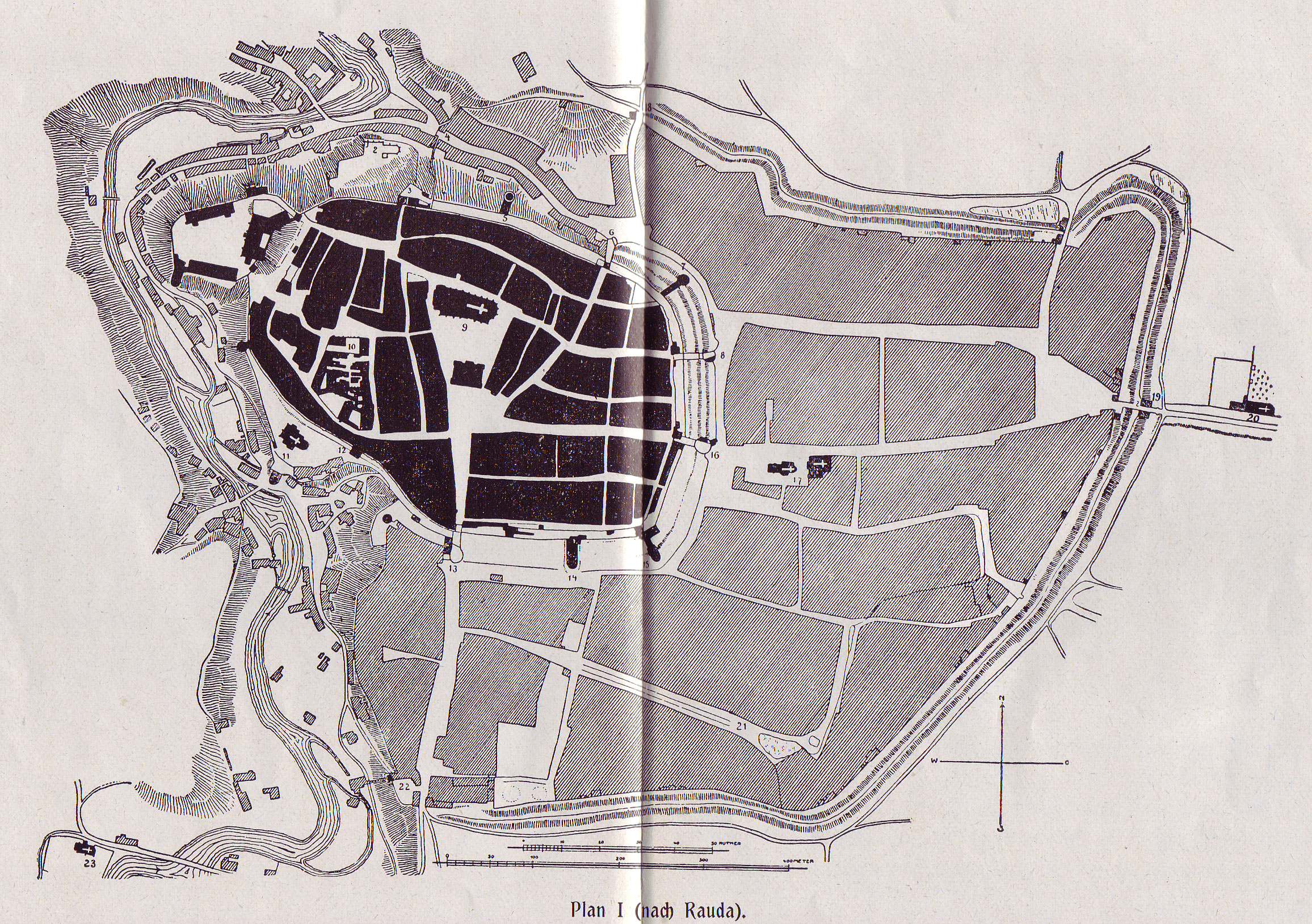 old map of Bautzen (ca. 1825).